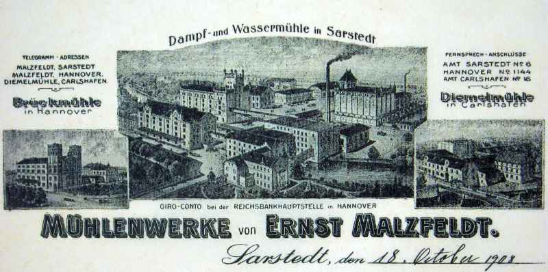 This postcard illustrates the company "Ernst Malzfeldt" in Sarstedt / Lower Saxonia, Germany (latest publication date 18.10.1908)